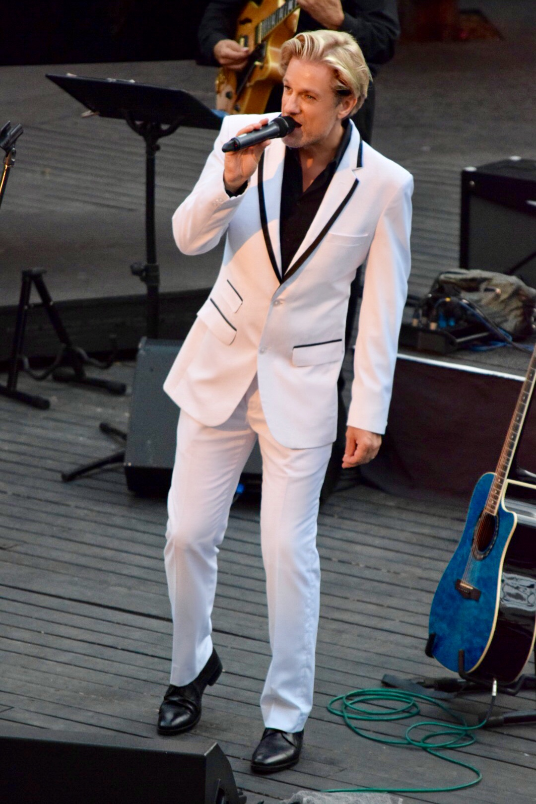 This photo was taken at an 'Ike Moriz Swing Band' concert in South Africa.